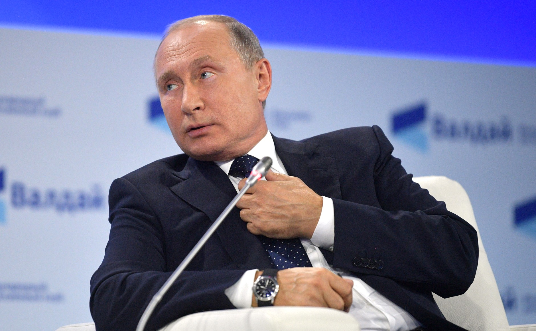 Russian President Vladimir Putin during the plenary session of the 15th annual meeting of the Valdai International Discussion Club.